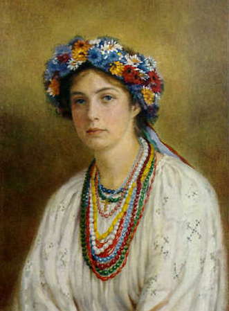 Elizabeth Skoropadsky, hetman's daughter